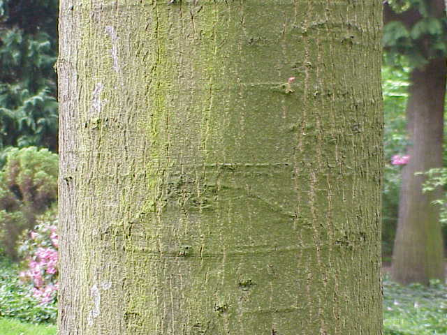 Species: Quercus rubra (syn. Q. ambigua) Family: Fagaceae Image No. 2